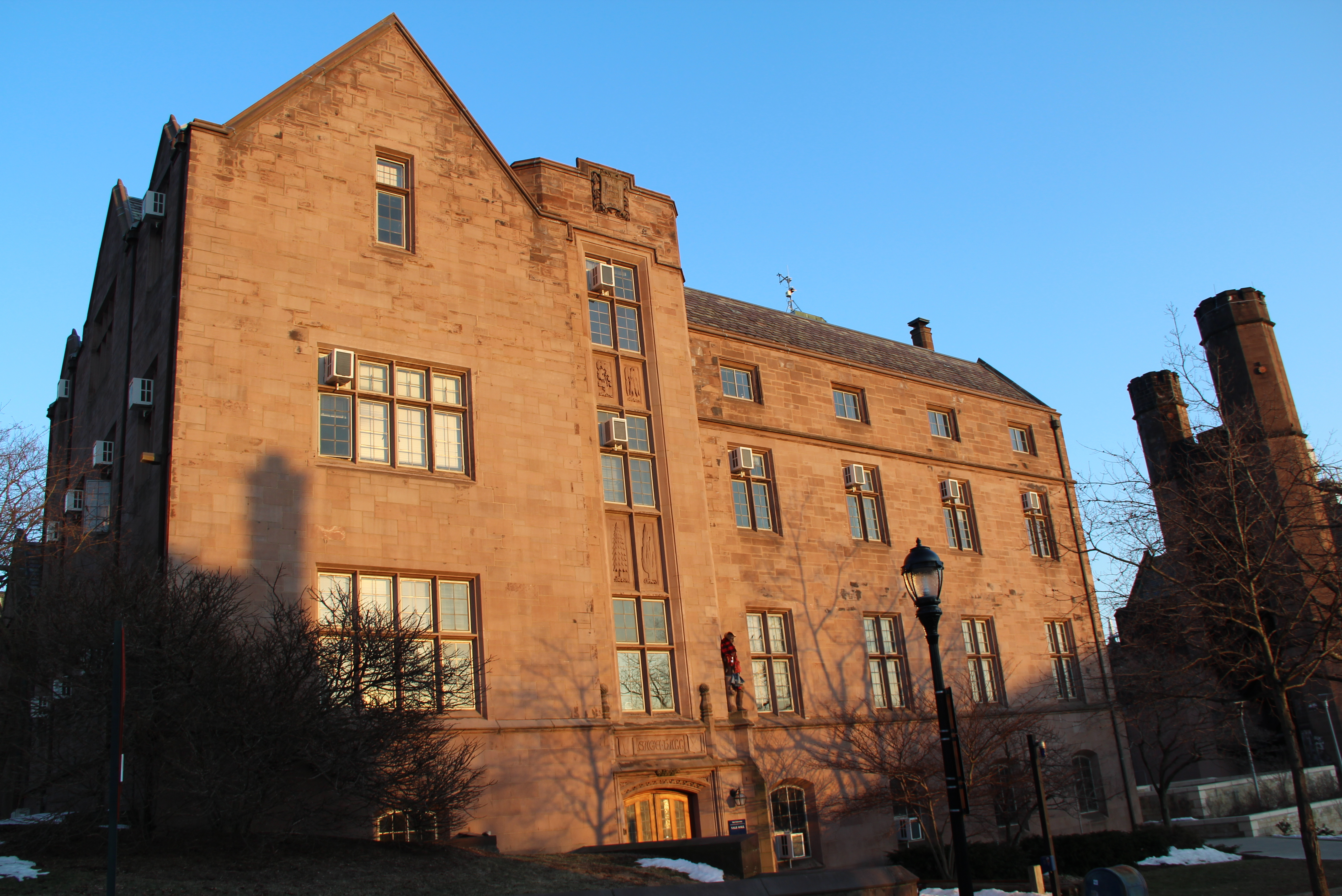 Sage Hall, building of the Yale School of Forestry & Environmental Studies, Yale University, New Haven, CT, designed by William Adams Delano